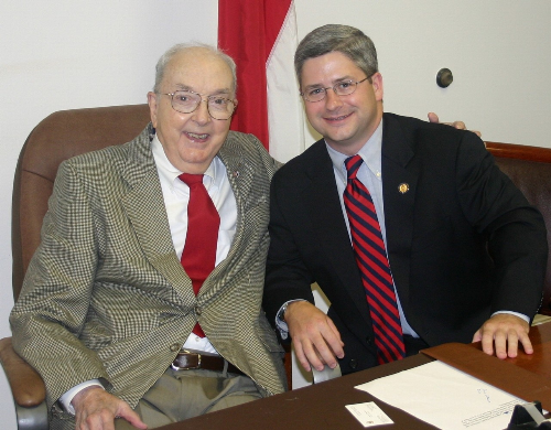 Congressman Patrick McHenry visits with Senator Jesse Helms - 8/31/05